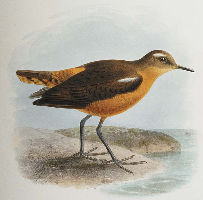 Forster's Short Winged Sandpiper (Phegornis Leucopterus, now Prosobonia leucoptera). Also commonly called White-winged Sandpiper. Hand-coloured lithograph by J.G. Keulemans from H. Seebilm's Geographical distribution of the Charadriidae (1887–1888).